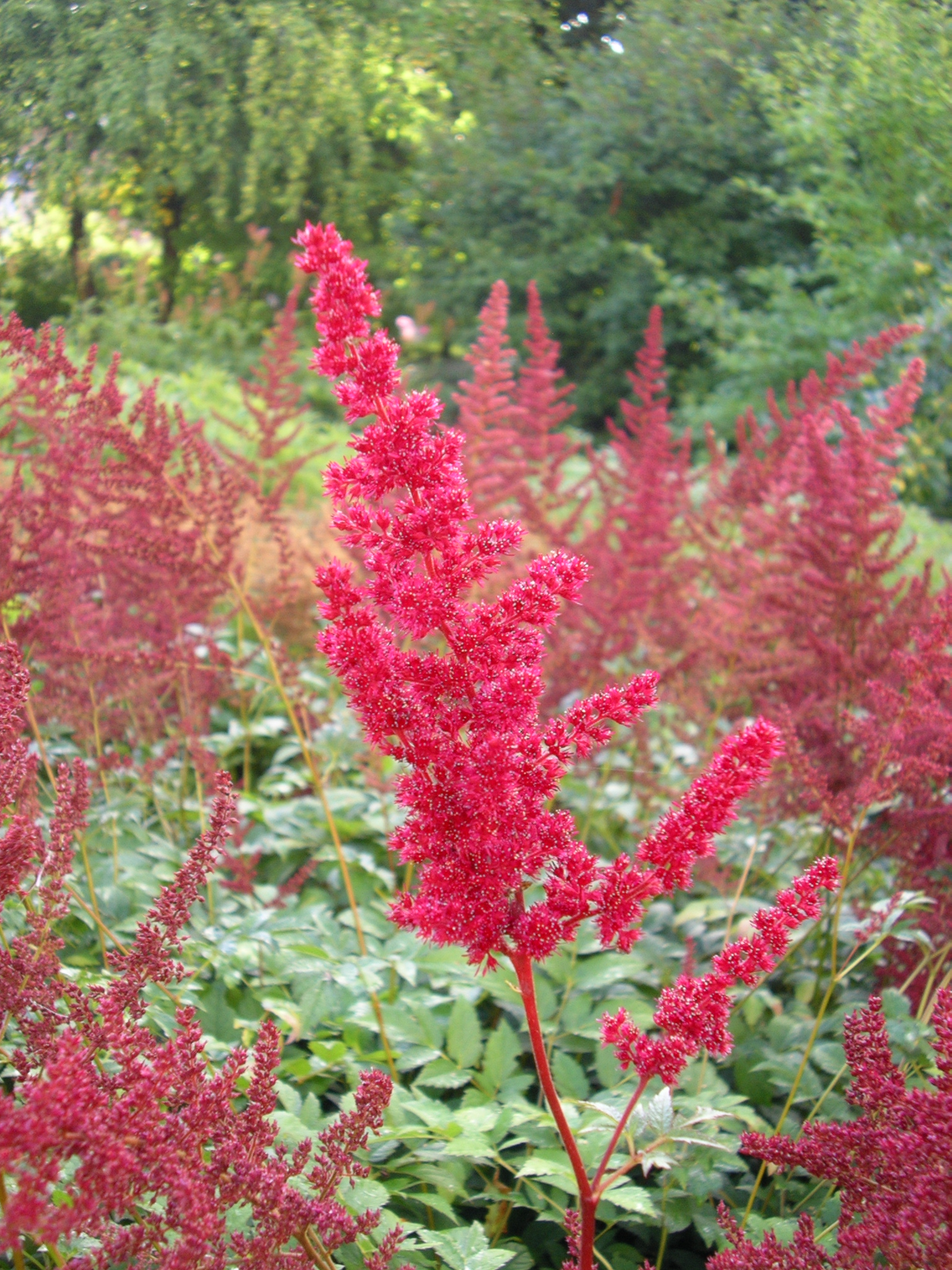 Lithuanian flowers